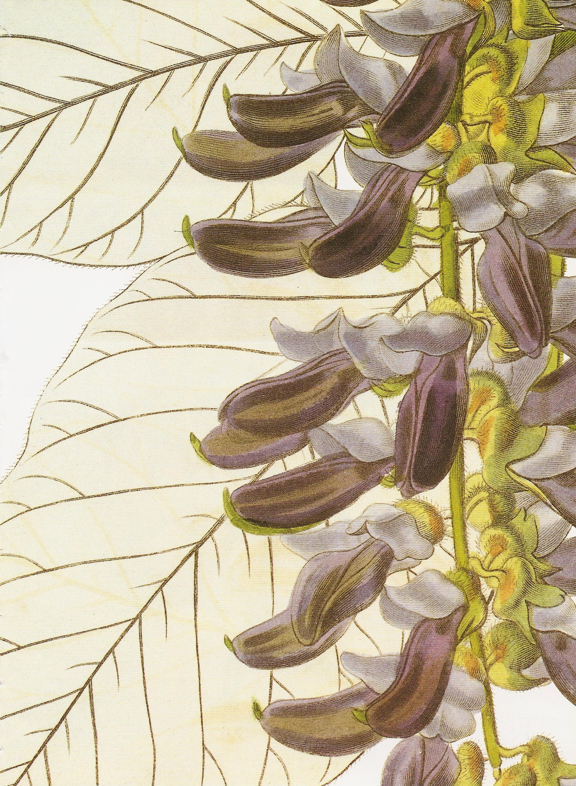 Mucuna pruriens, a hand-coloured engraving after a drawing by Miss S. A. Drake (fl. 1820s-1840s), from the 24th volume of the Botanical Register (1838), edited by John Lindley.